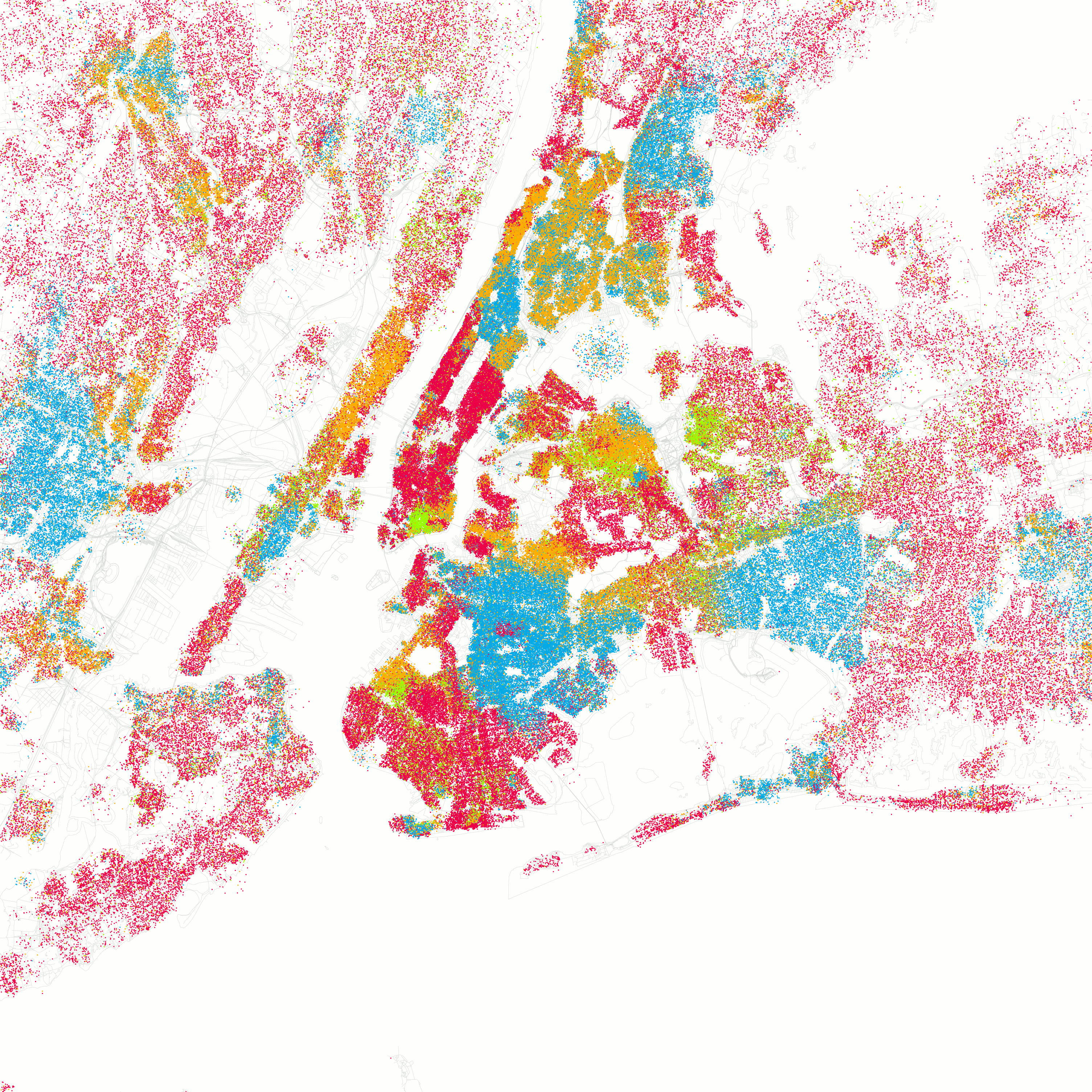 Racial/ethnic self-identification in New York City in the year 2000 (data from Census 2000). Each dot is 25 people. White Black Asian Hispanic Other